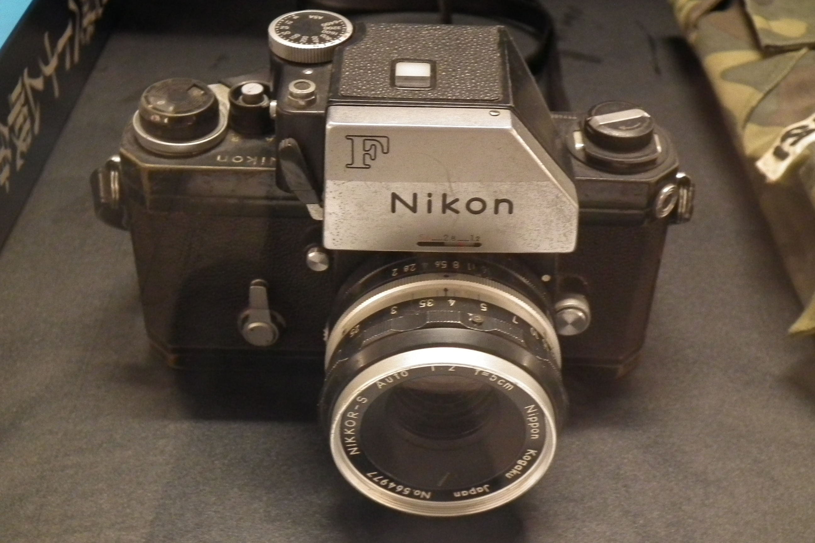 Nikon F Photomic FTn of Bunyo Ishikawa WAR REMNANTS MUSEUM